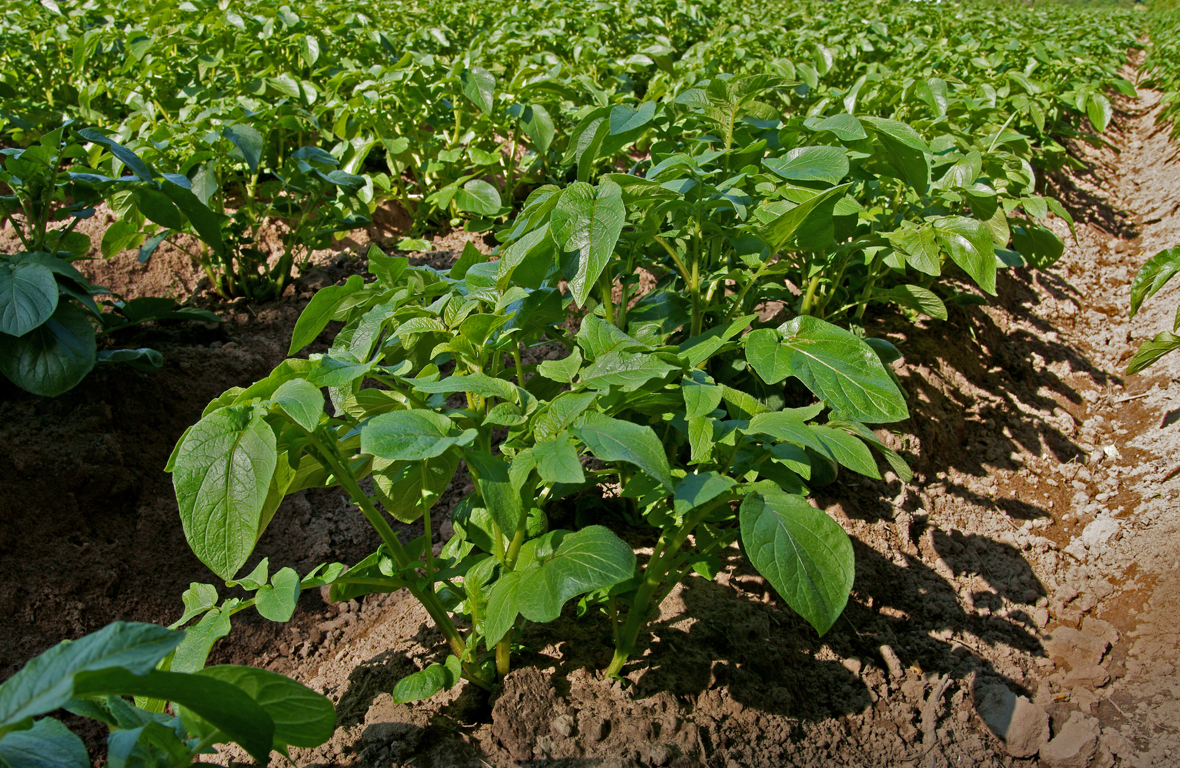 Potato field in Nakkila.